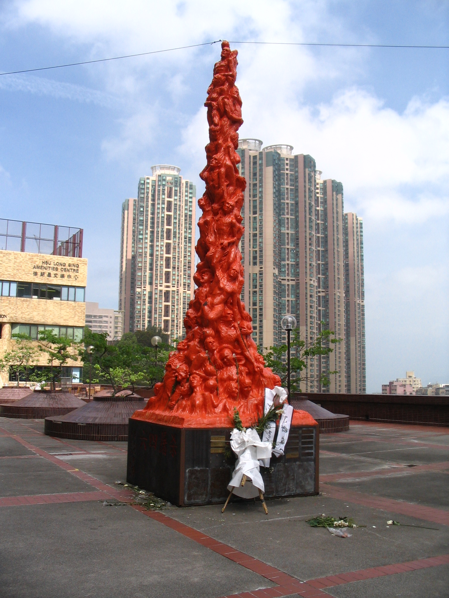 Photo of Pillar of Shame in Orange